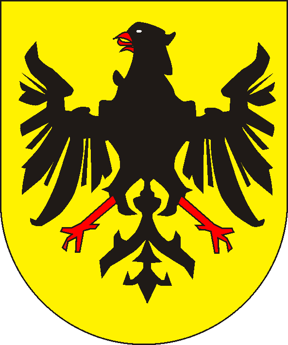 coats of arms of count of Neuenahr